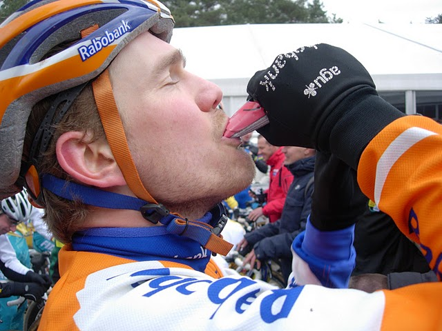 Oostmalle 2010, Belgium